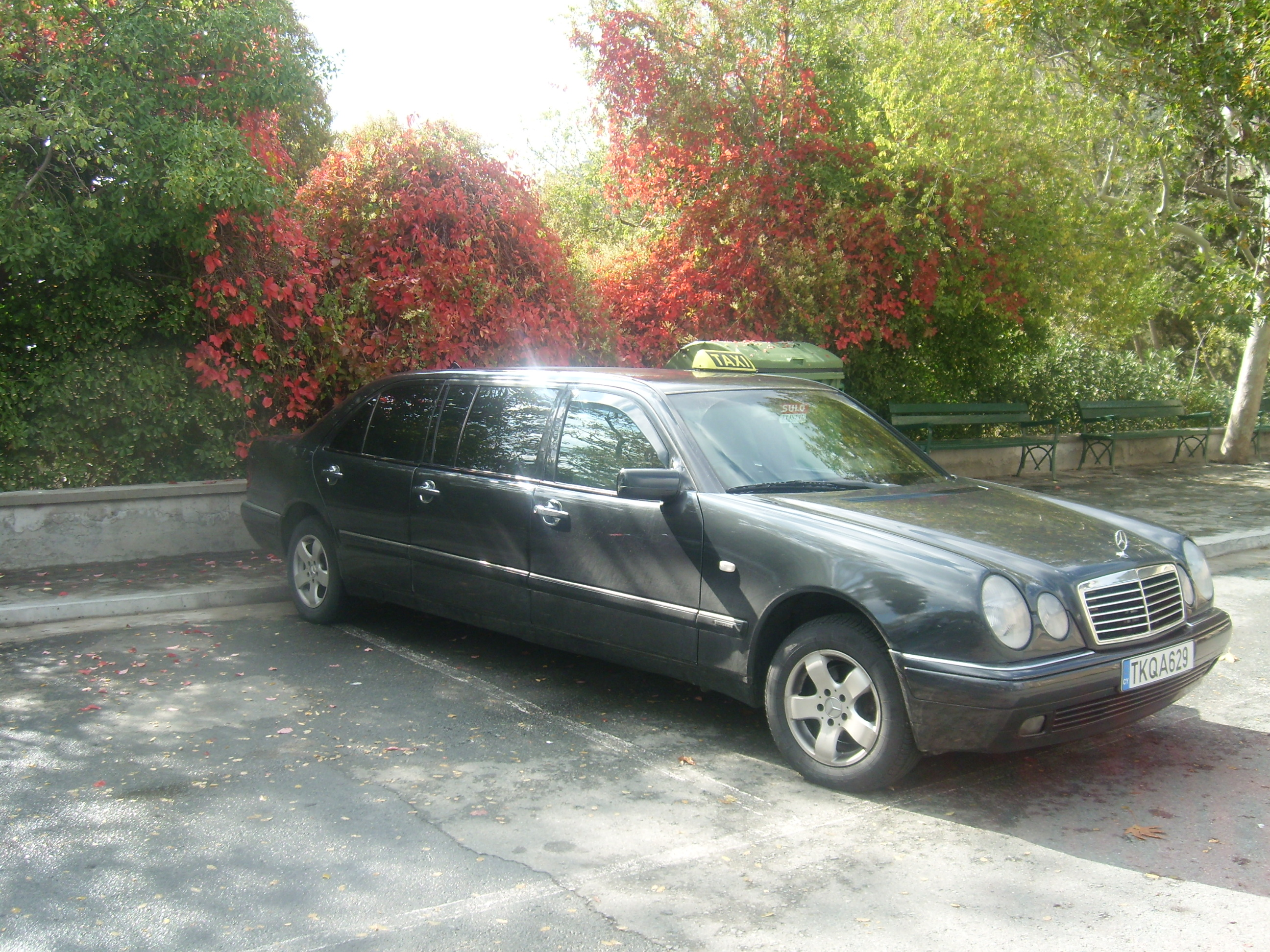 Mercedes W210 strech version as a taxi on Cyprus